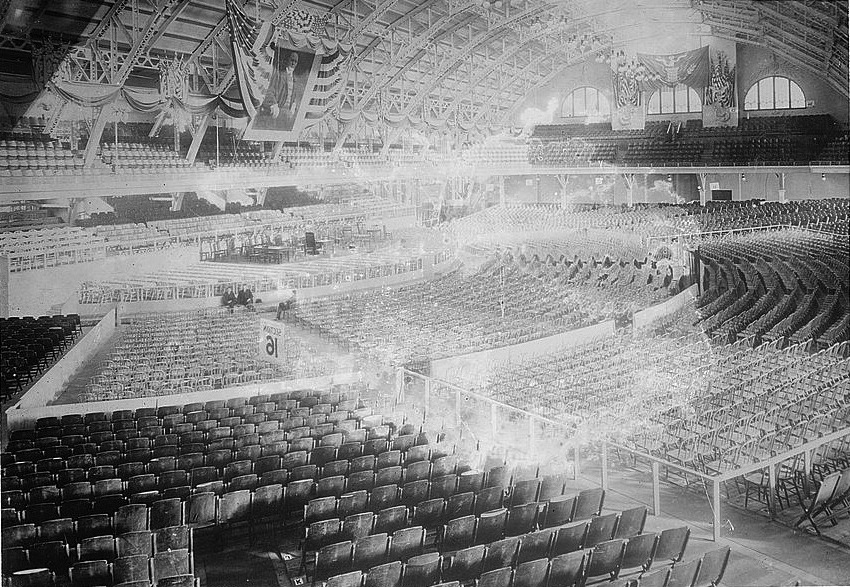 interior of the Chicago Coliseum.